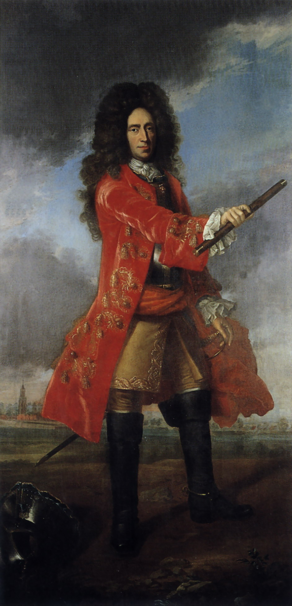 Georg Friedrich, count of Waldeck (1620-1692), painted for the Gouvernors Palace in Maastricht by Johann Valentin Tischbein (after contemporary portraits?), ca 1750. Museum collection of Schloss Fasanerie, Fulda, Germany.